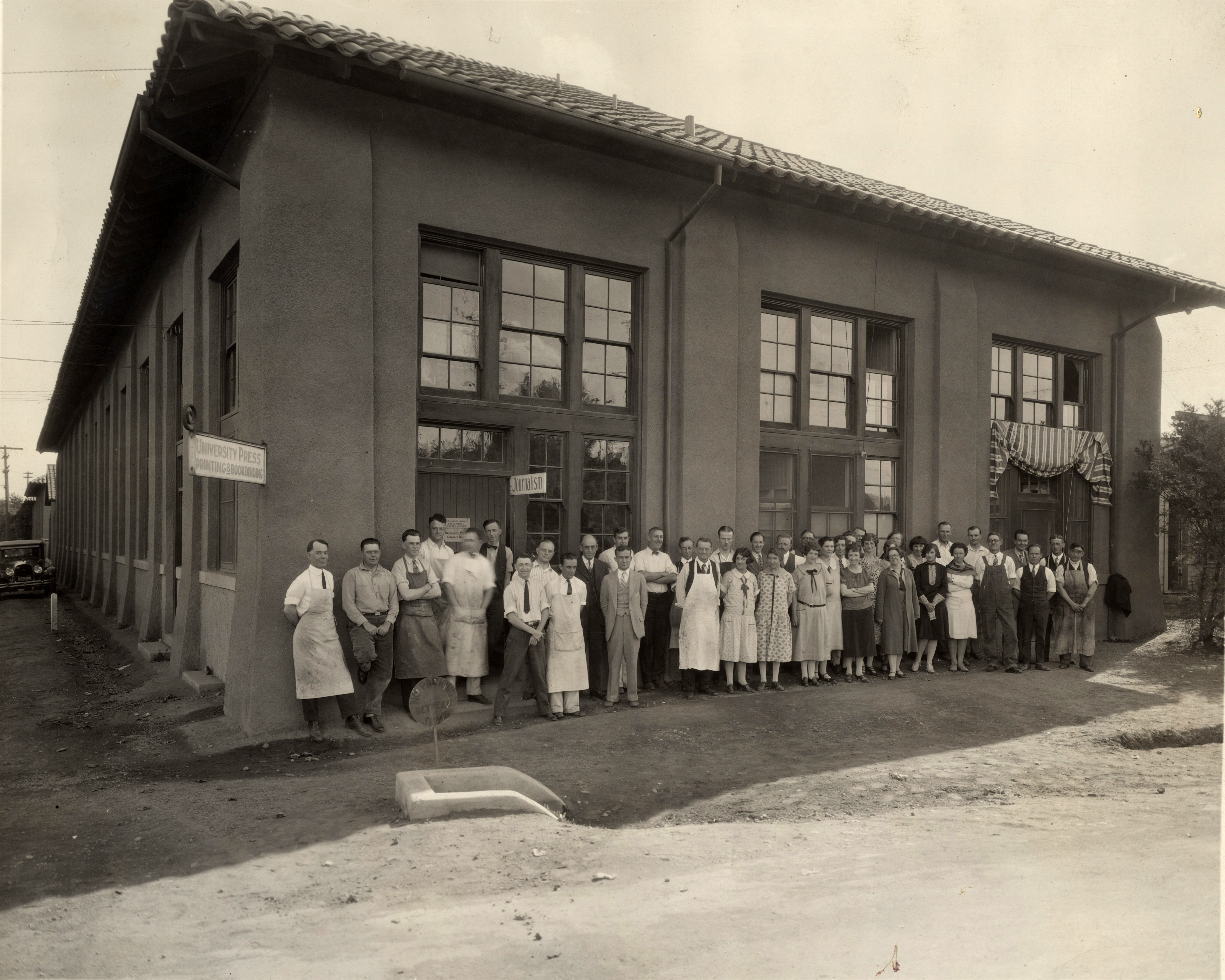 A 1929 photo of the Stanford University Press staff in front of their building. (Image credit: Stanford University Press Archives)